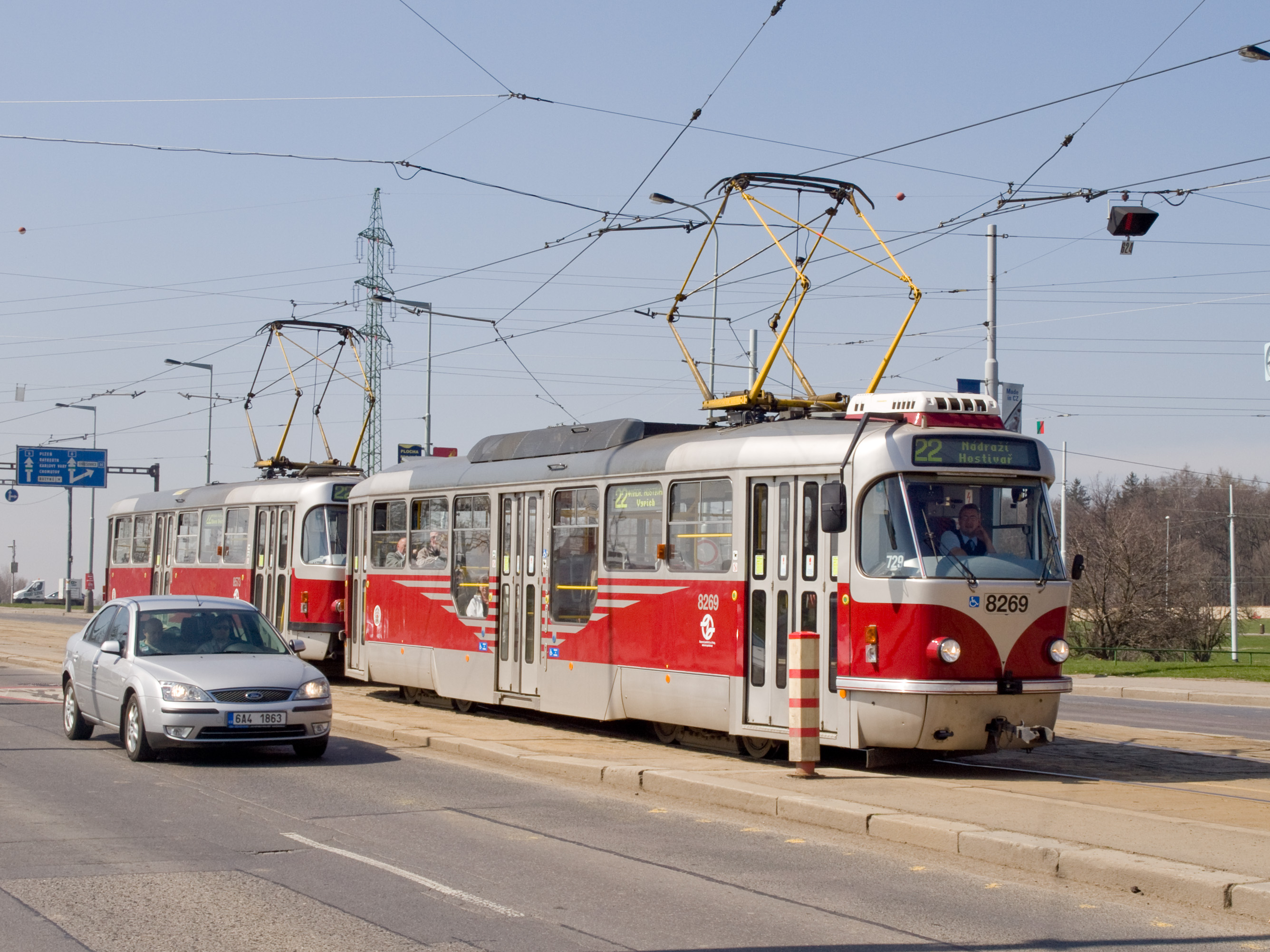 Tatra T3RPLF near Vypich tram stop, Prague 6